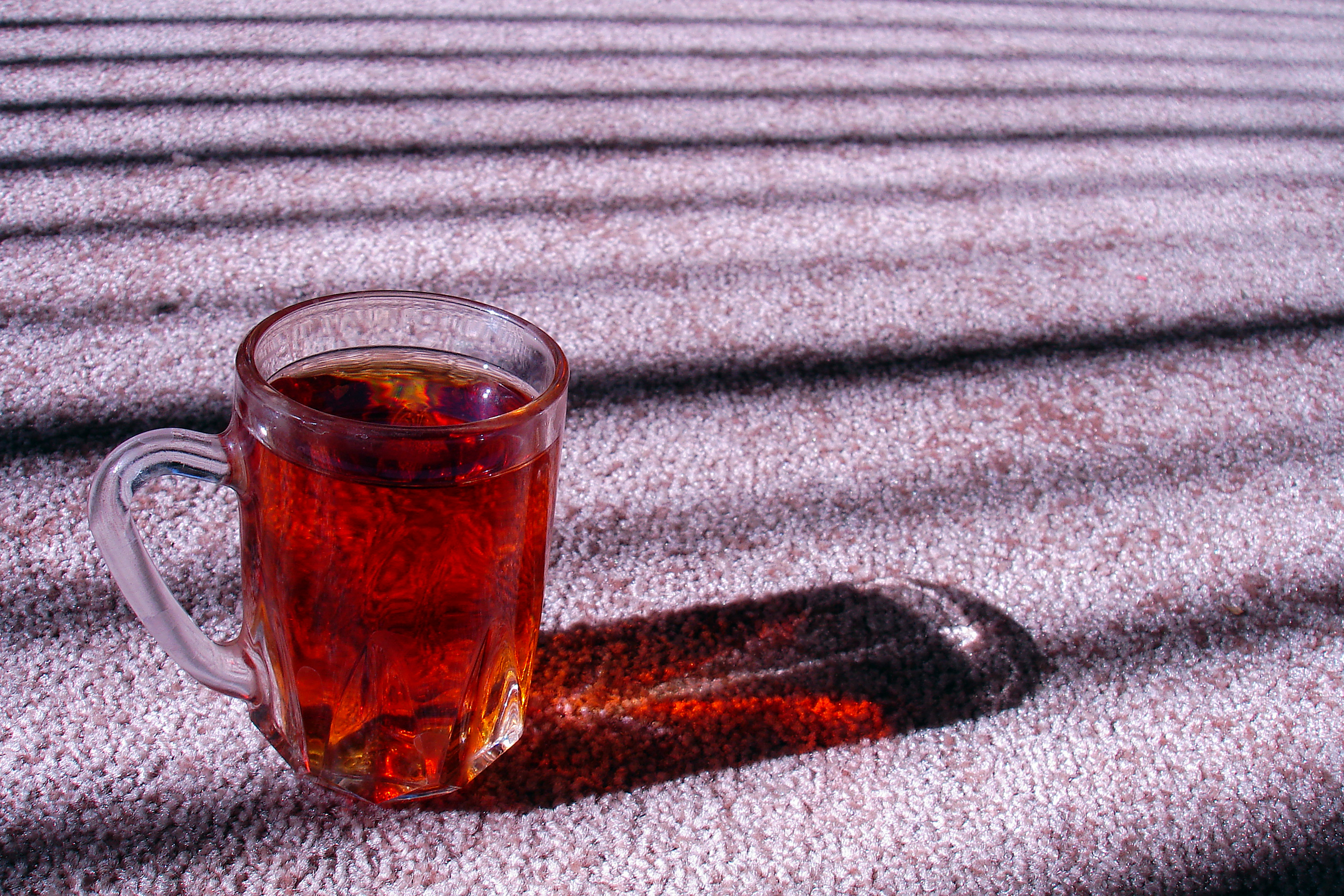 Tea is an aromatic beverage commonly prepared by pouring hot or boiling water over cured leaves of the Camellia sinensis, an evergreen shrub (bush) native to Asia.